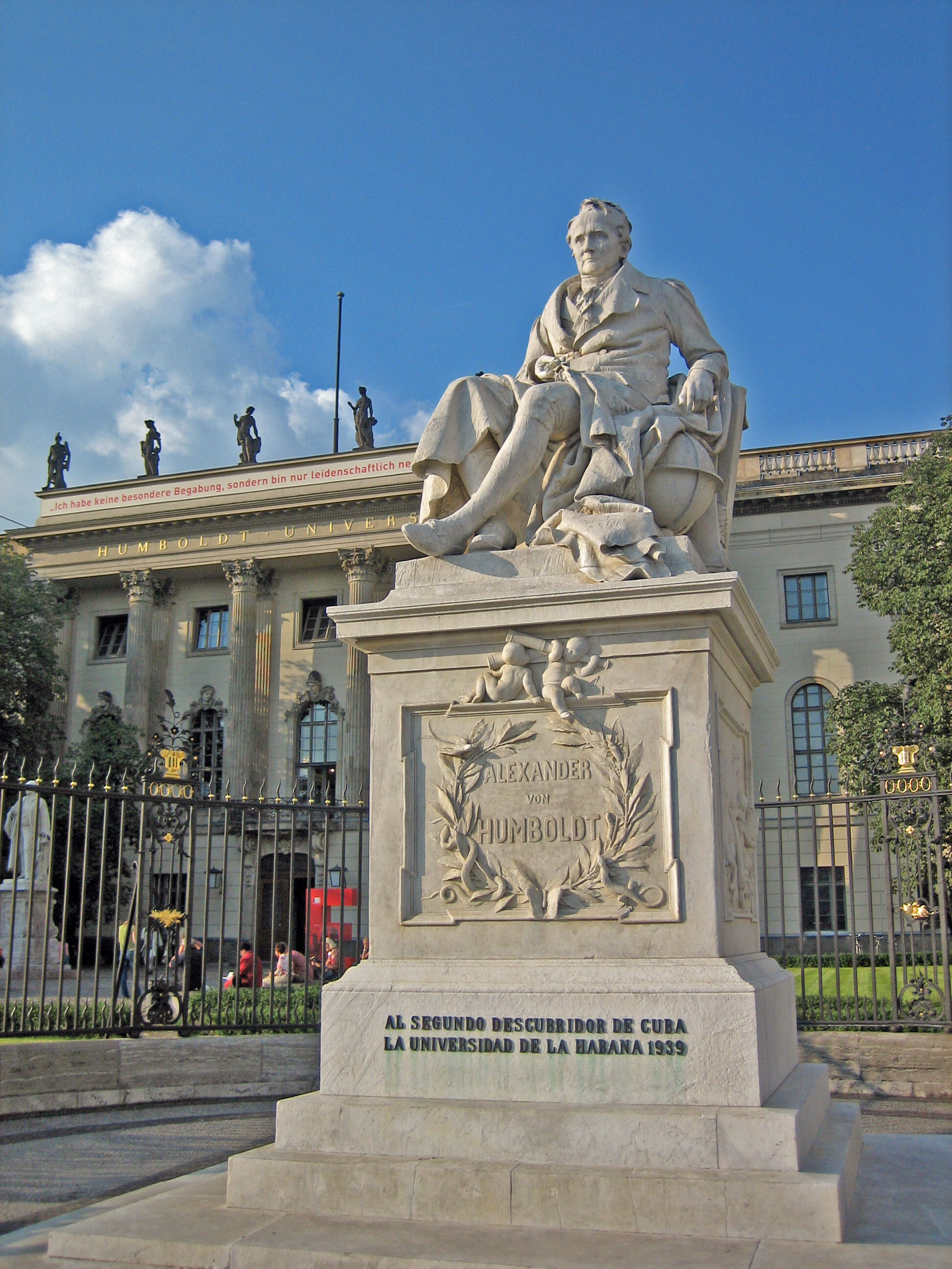 Humboldt-Monument in front of Humboldt University